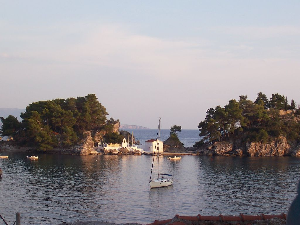 The little isle of panagia in front of Parga in the evening